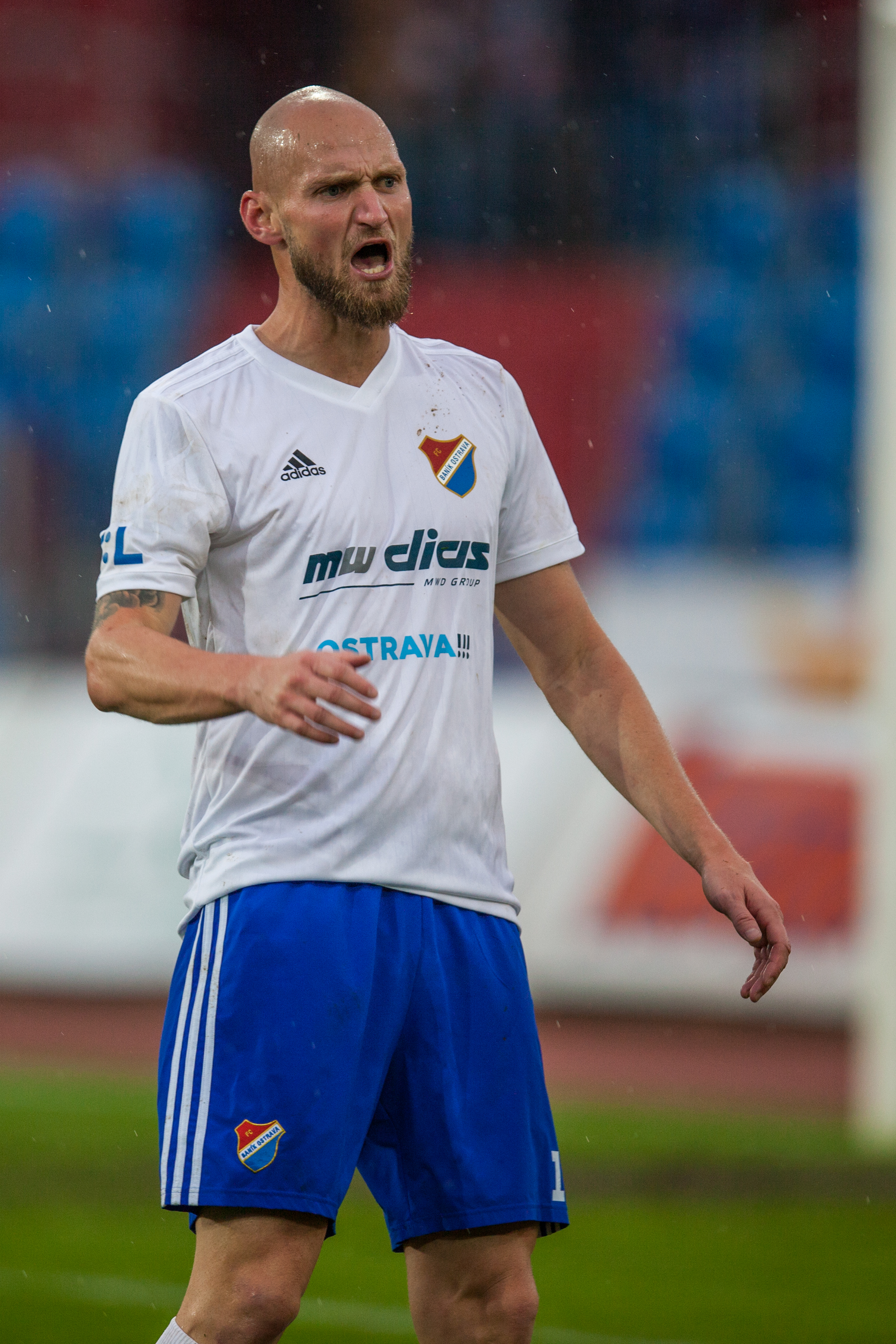 Tomáš Smola in a Czech First League (Fortuna:Liga) match between FC Baník Ostrava and FC Fastav Zlín (4:0), 5 October 2019, Městský stadion Ostrava, Ostrava-Vítkovice, Ostrava-City District, Moravian-Silesian Region, Czechia Personality rights warningAlthough this work is freely licensed or in the public domain, the person(s) shown may have rights that legally restrict certain re-uses unless those depicted consent to such uses. In these cases, a model release or other evidence of consent could protect you from infringement claims.